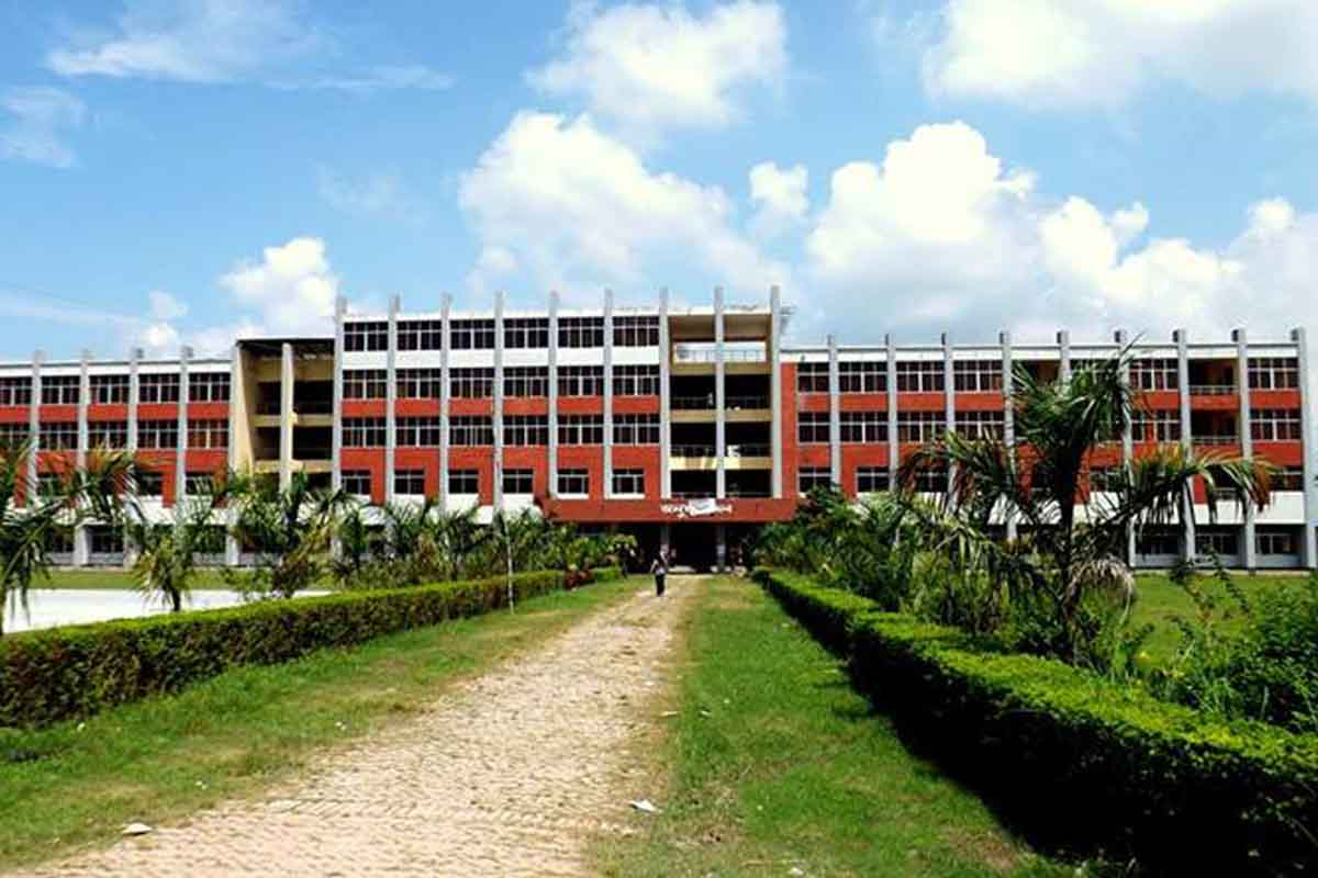 A five-storied academic building is located at the middle-southern portion of Jessore University of Science and Technology (JUST) campus. All the department offices, class rooms and laboratories are situated in this building. The departments under the faculty of Engineering and Technology occupy the ground, first and second (partial) floors. Whereas, departments under the Biological Science and Technology are found at the second and third (partial) floors and departments under the faulty of Applied Science and Technology and Physical Education Language and Ethical Studies are available at third floor of academic building